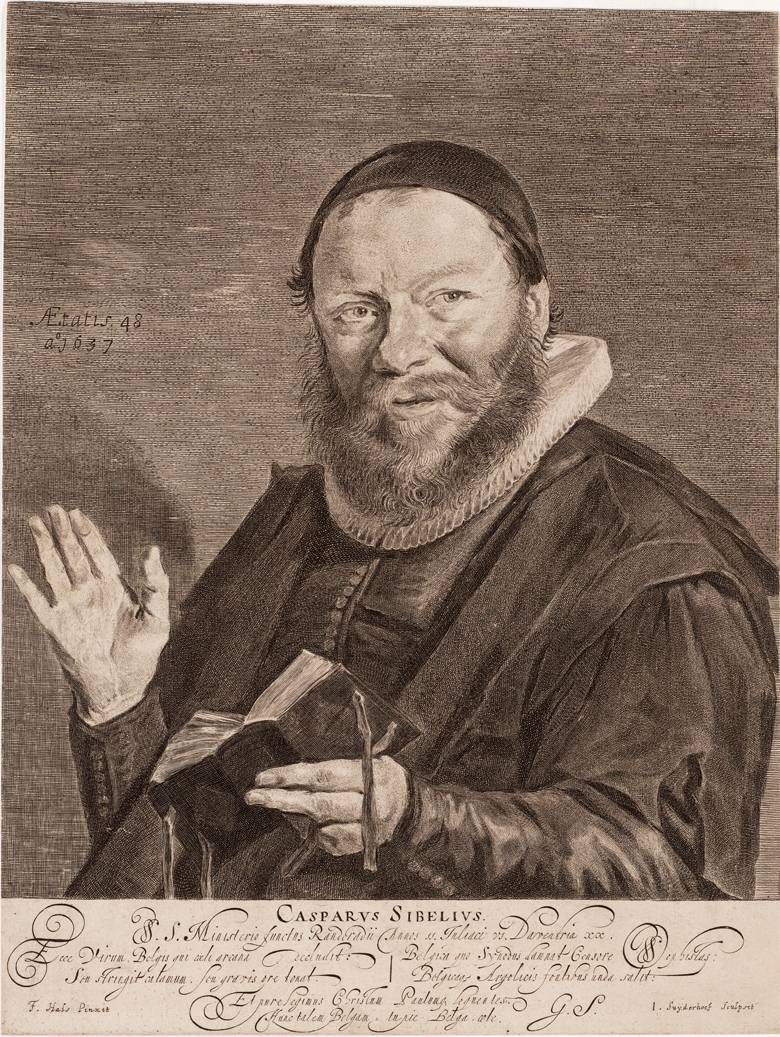 Portrait of Caspar Sibelius Casparus Sibelius S.S. Ministerio functus Randeradii Annos ii Guliaci vi. Daventria xx Ecc Virum. Belgis qui aeli areana Decludit : Sou stringit calamum. Sou gravis ore tonat. Belgica que Synodus dannat Causere Sopbistas : Belgicags Argolicis festivus unda salit : Et pure Seginus Christau Paulung Leguentes. Hunc talem Belgau lupic Belga ale. G.S. F. Hals pinxit - I Suyderhoef sculpsit